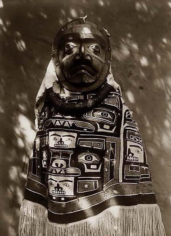 Woman wearing a fringed Chilkat blanket, a hamatsa neckring and mask representing deceased relative who had been a shaman. Mask is Tluwulahu.